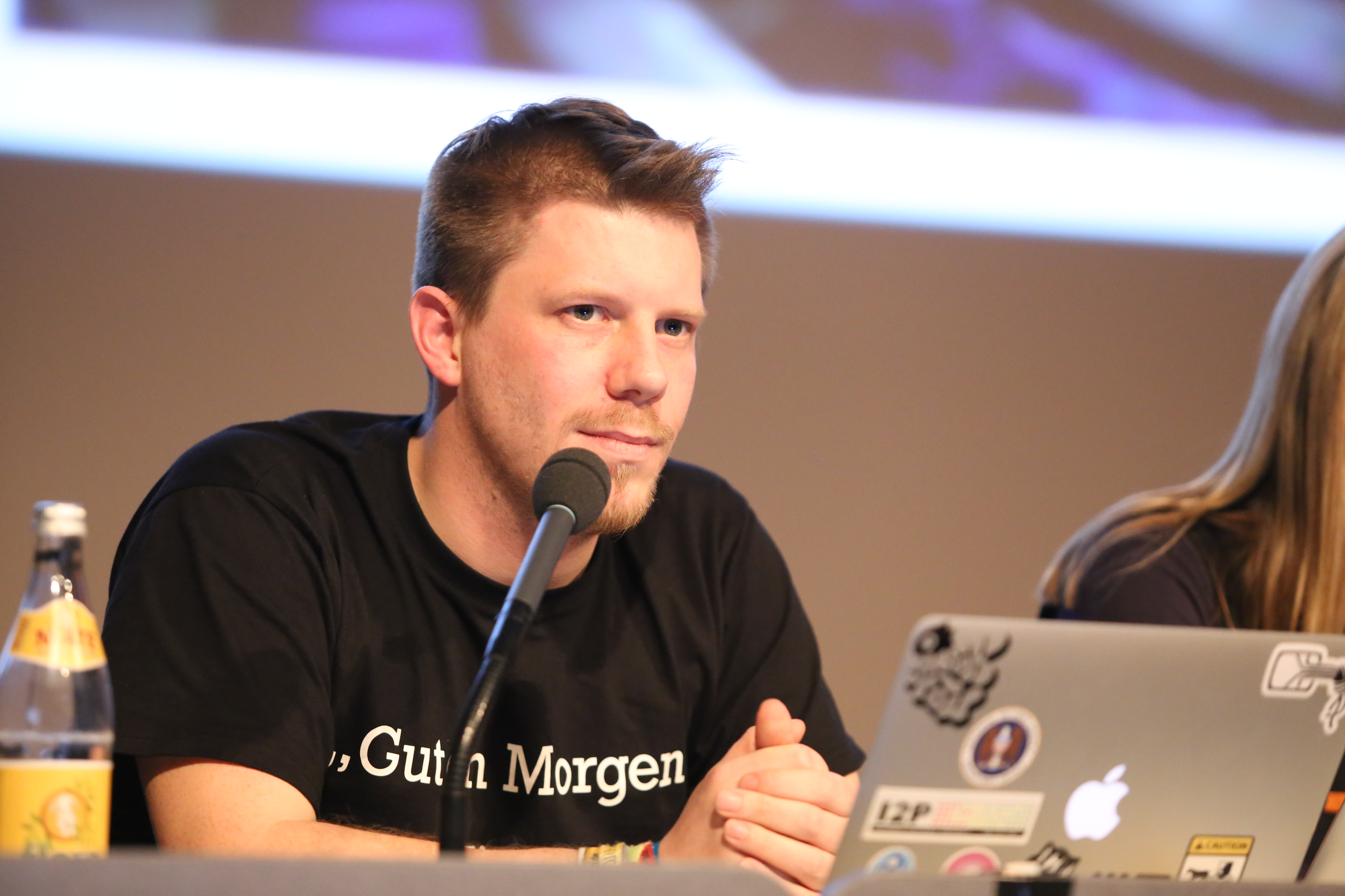 End of the year review for the Chaos Computer Club at the 30th Chaos Communication Congress in Hamburg, 2013. With Linus Neumann, Constanze Kurz and Frank Rieger (from left to right).